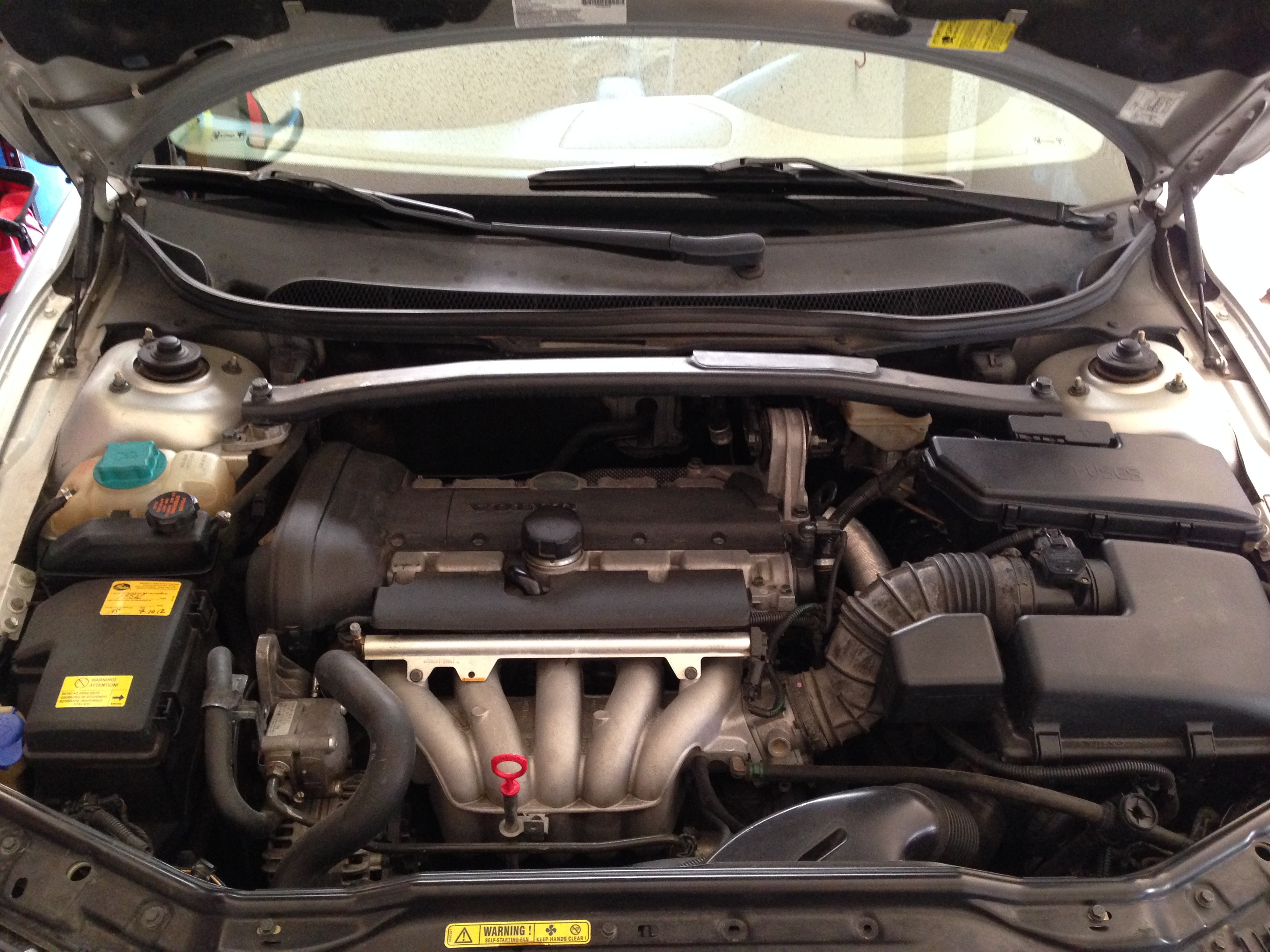 A Volvo B5244S DOHC 20V I5 engine in a 2003 Volvo S60. The battery is conspicuously absent; it's located in the trunk.